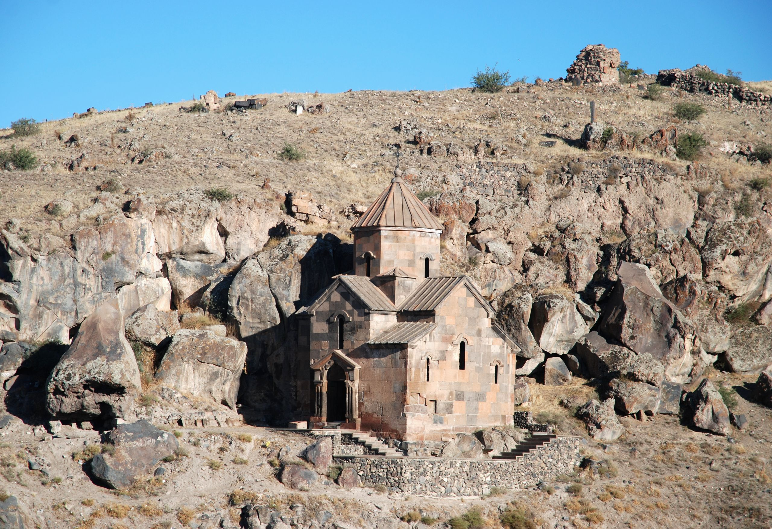 Kosh, Stepanos church, 7th ct.